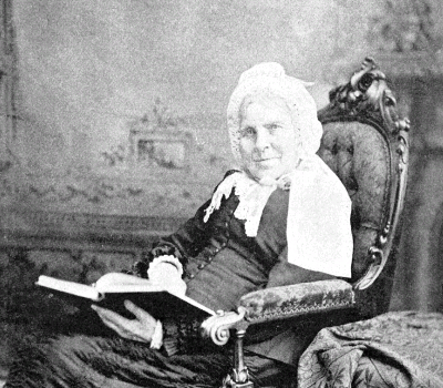 From her book. Catherine Parr Traill (-1899)